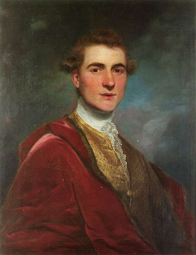 "Portrait of Charles Hamilton, 8th Earl of Haddington," oil on canvas, by the British artist Sir Joshua Reynolds. 71 cm x 56 cm (27.95 in. x 22.05 in.) Undated. Private collection. Courtesy of The Athenaeum.